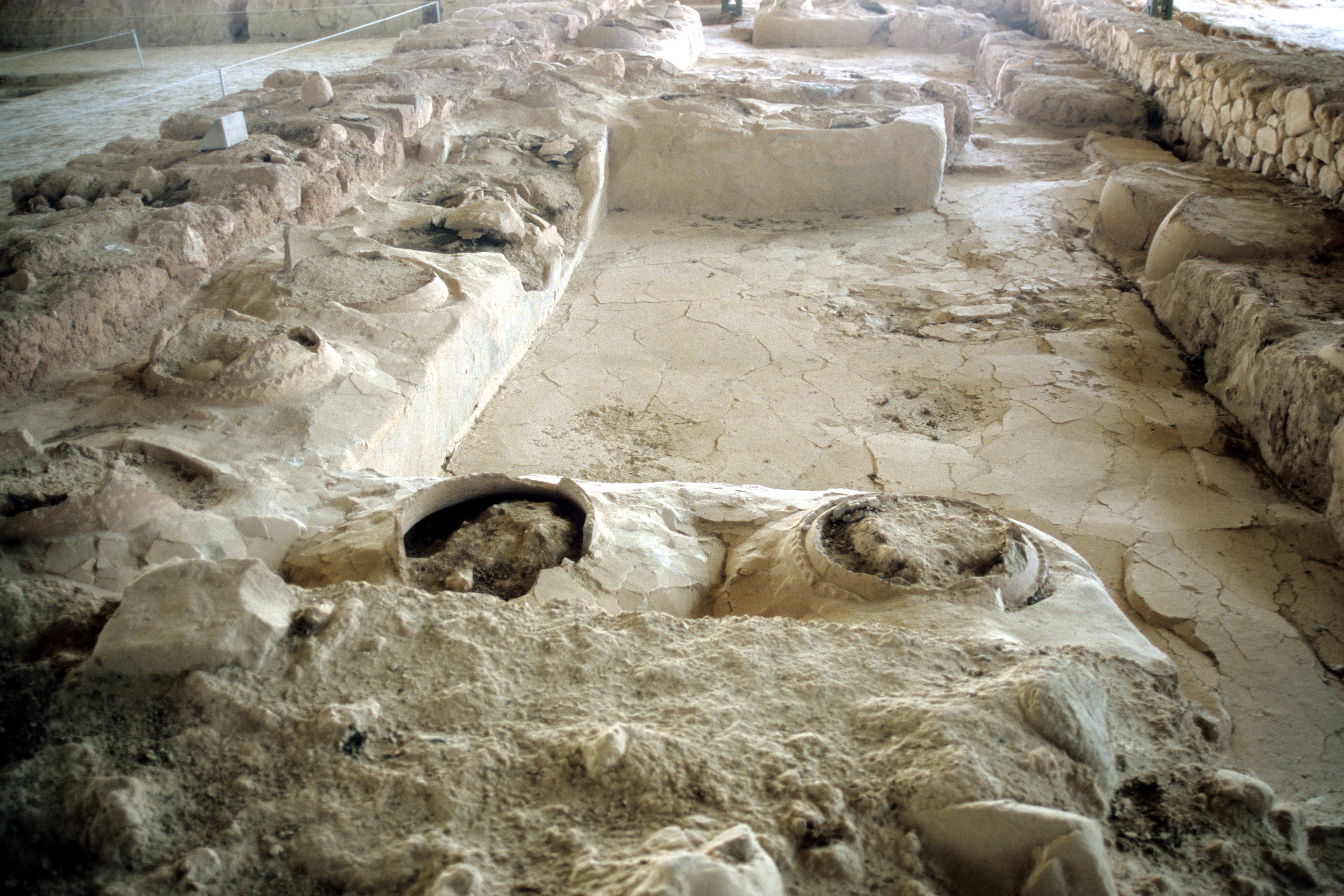 Nestor's Palace (Pylos)